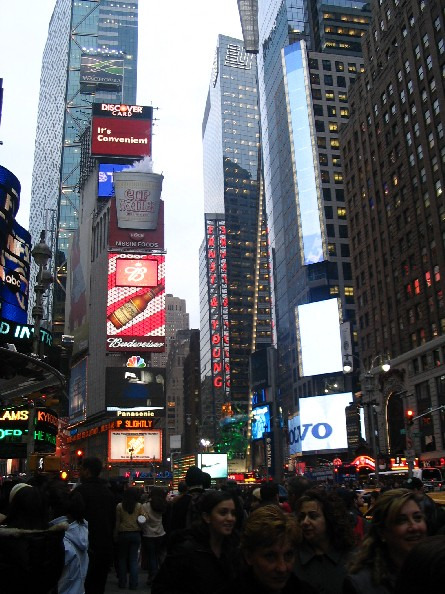 Times Square. (The Cup 'o Noodles is steaming.)